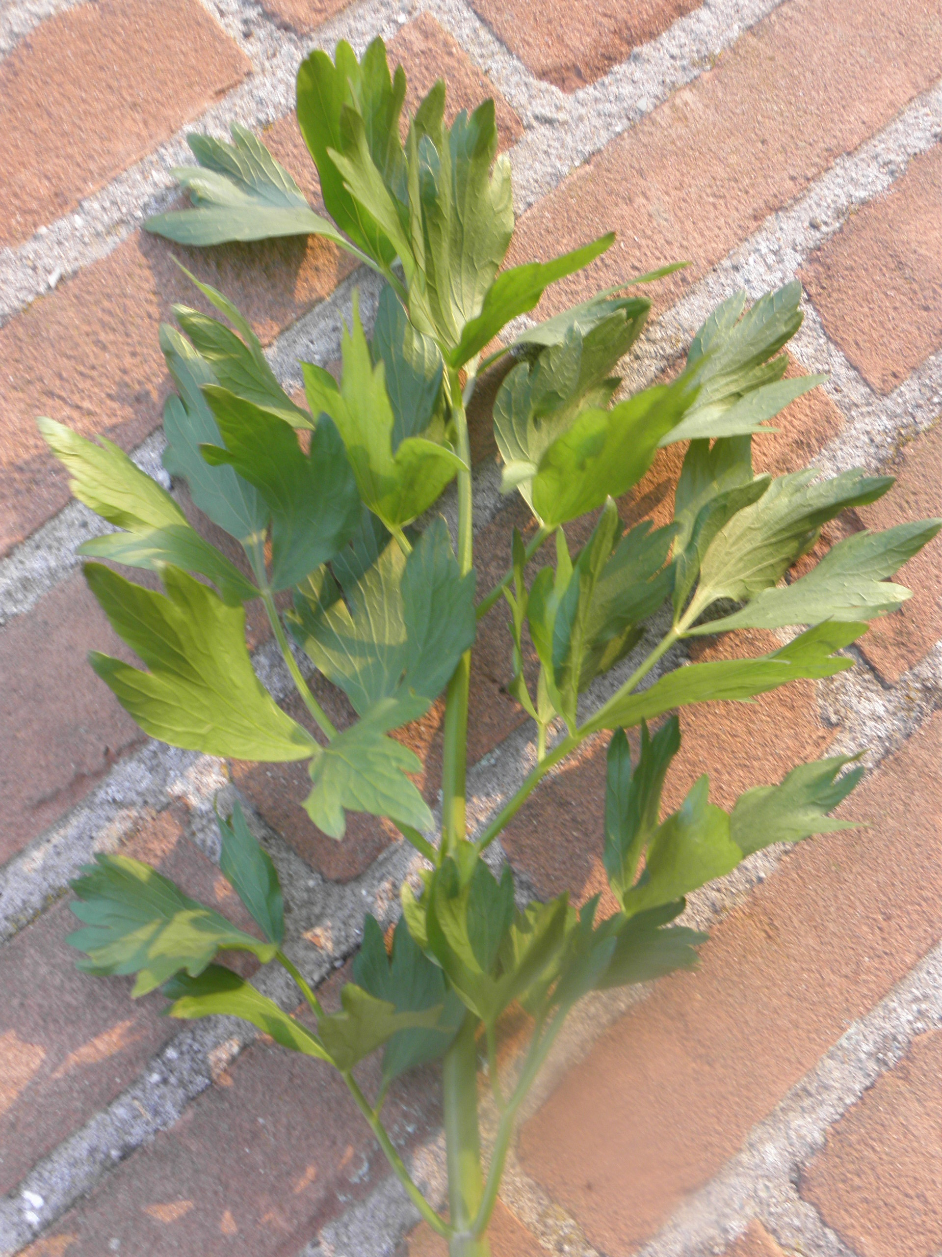 Lovage